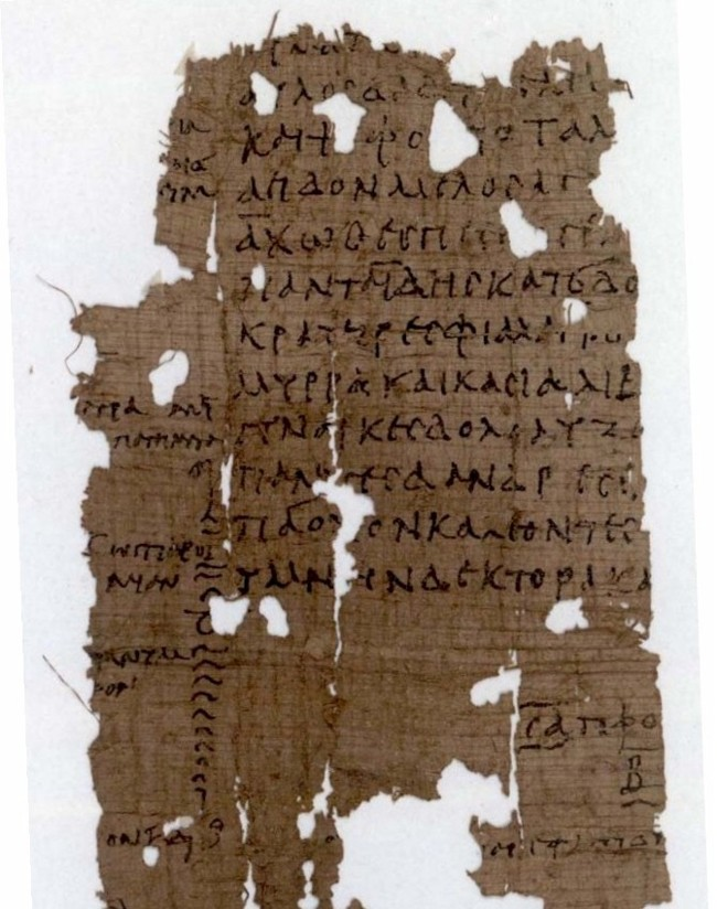 P. Oxy. XVII 2076, Sappho, Book ii, ed. A.S. Hunt (Publication date: 1927, Date: Second century, Location: Papyrology Rooms, Sackler Library, Oxford)